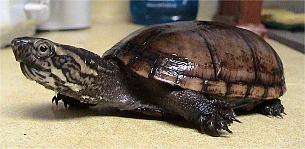 Photographer: LA Dawson Animal courtesy of Austin Reptile Service. 7 February 2006